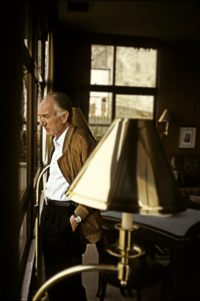 Photograph of Thomas Bernhard. Taken in Sintra, Portugal